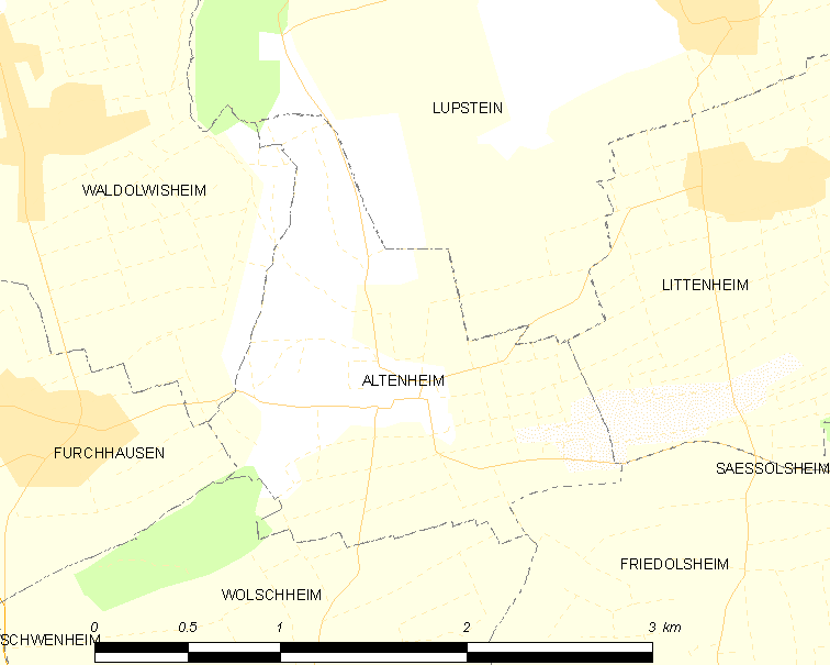 Map of French municipality